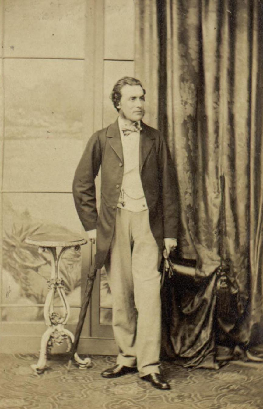 A portrait from the Welsh Portrait Collection at the National Library of Wales. Depicted person: Rudolph Feilding, 8th Earl of Denbigh – English nobleman; High Sheriff of Flintshire